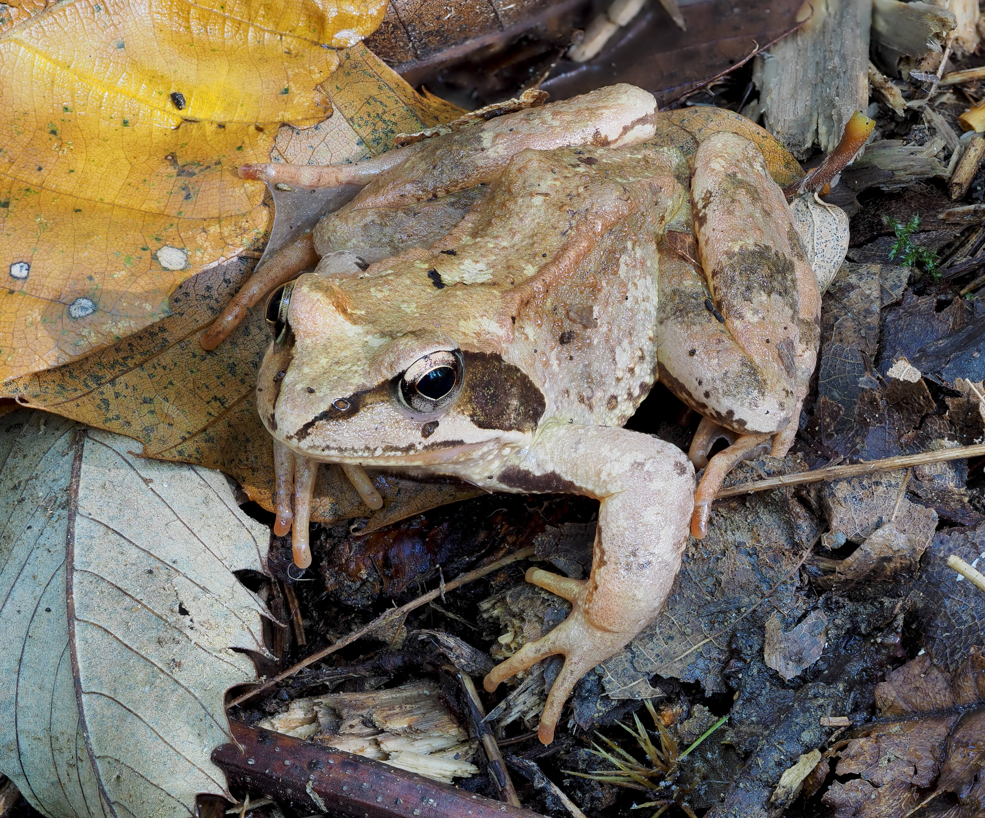 Agile frog (Rana dalmatina), Golovec forrest, Slovenia. Size around 5 cm. Српски (ћирилица): Шумска жаба (Rana dalmatina), Головец код Љубљане, Словенија !This photograph was taken with a Olympus E-M1.